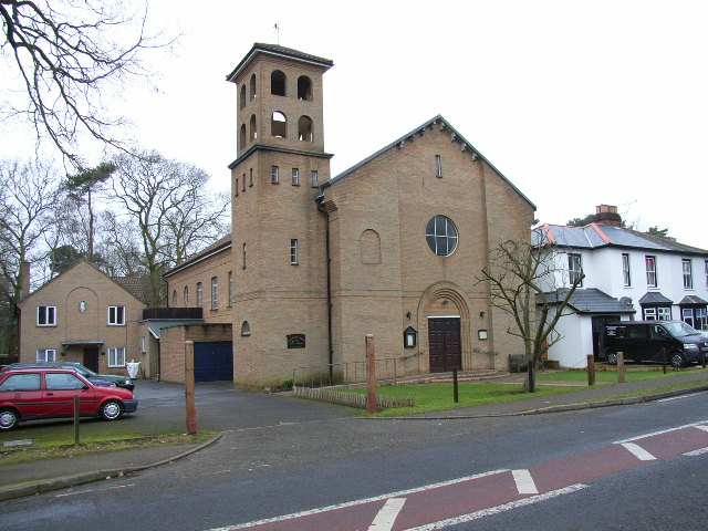 Roman Catholic church of the Holy Ghost, New Wokingham Road, Crowthorne, Berkshire, seen from the east